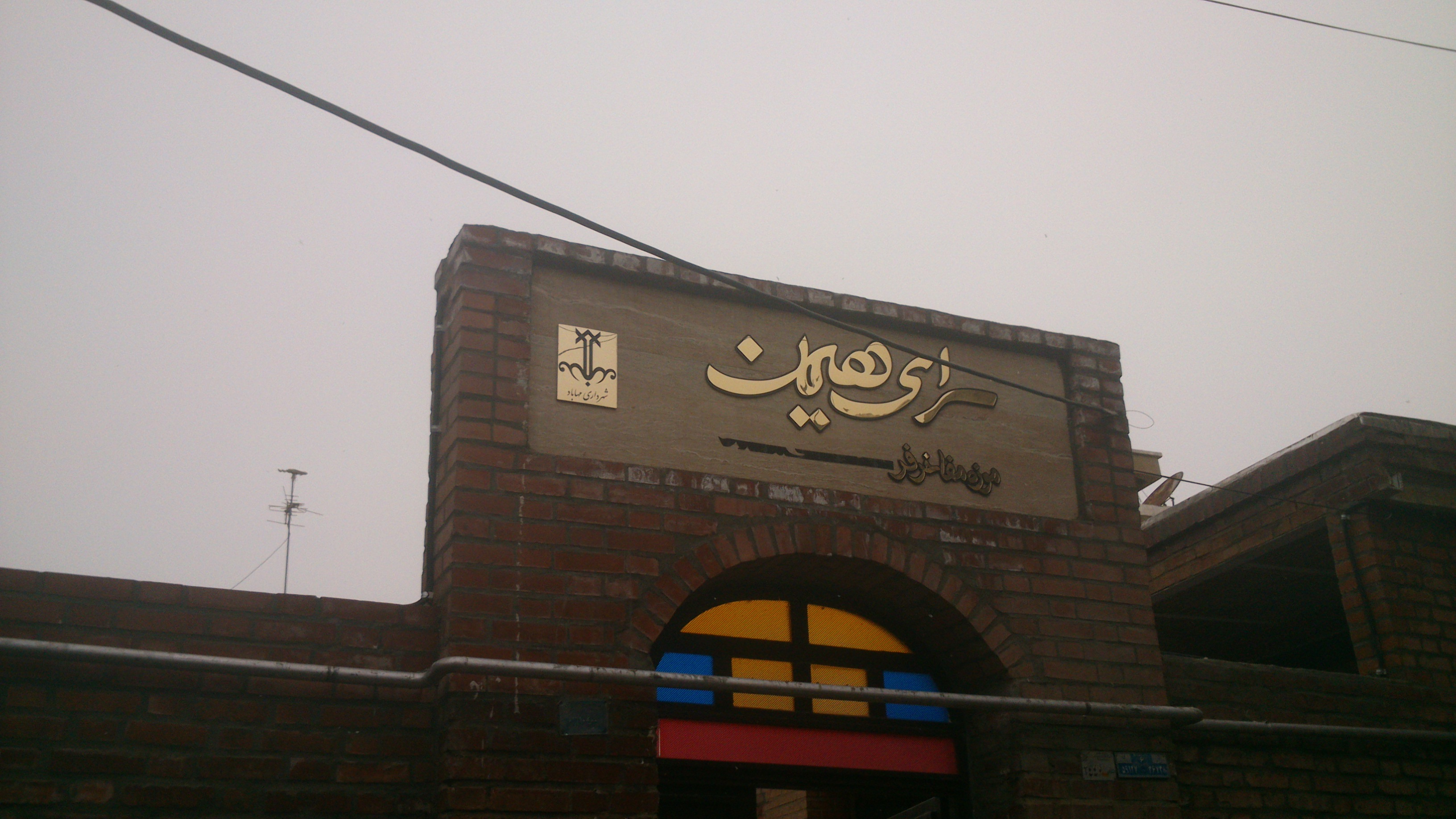 Hemin Kurdî: سەرای هێمن